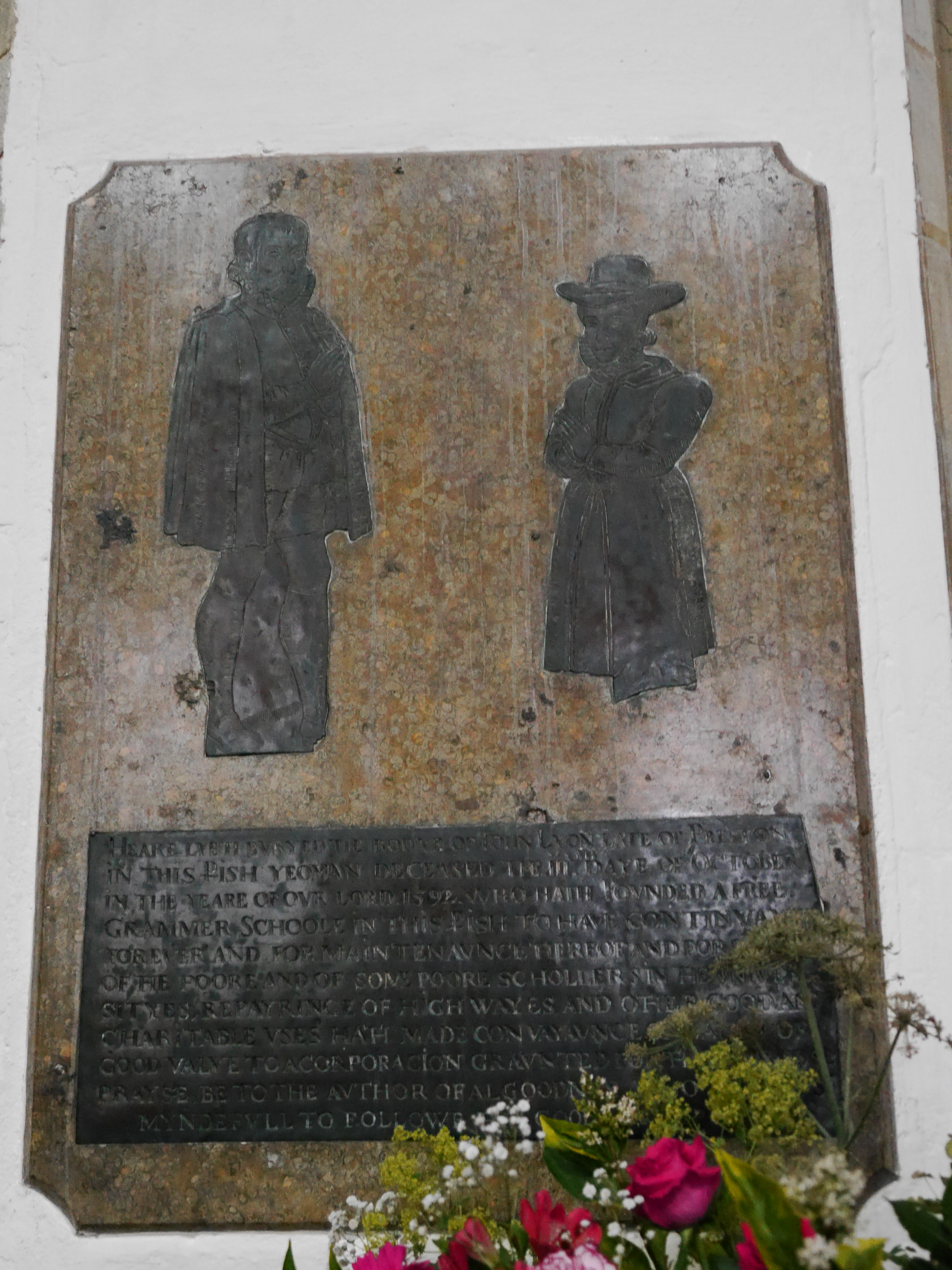 St Mary's, Harrow on the Hill, 2015